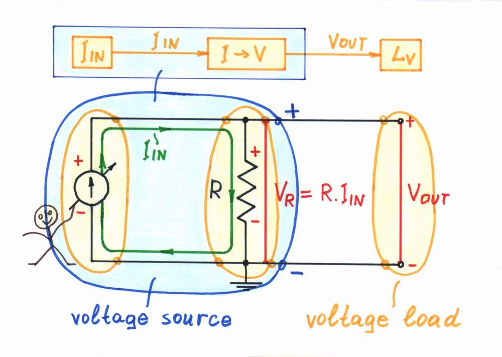 Current-controlled voltage source